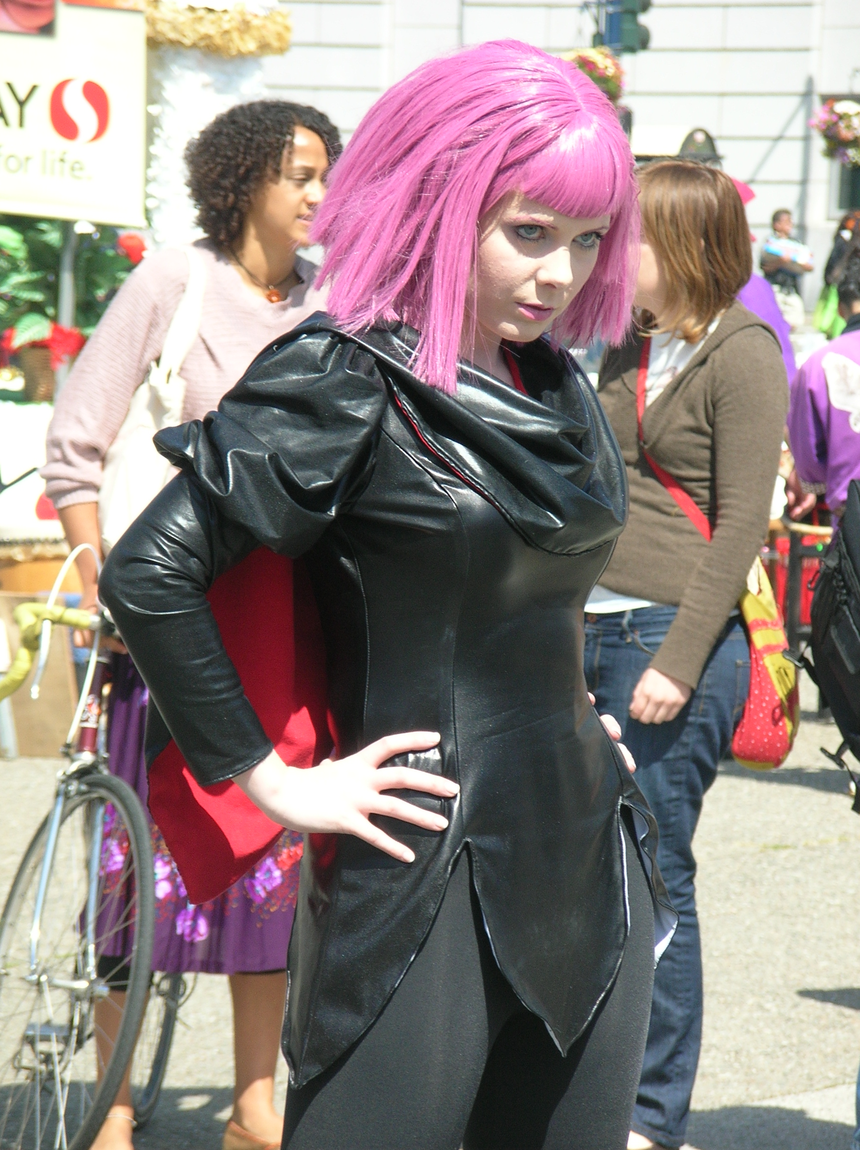 A cosplayer portraying Haman Karn from Mobile Suit Zeta Gundam and Mobile Suit Gundam ZZ at the Northern California Cherry Blossom Festival.